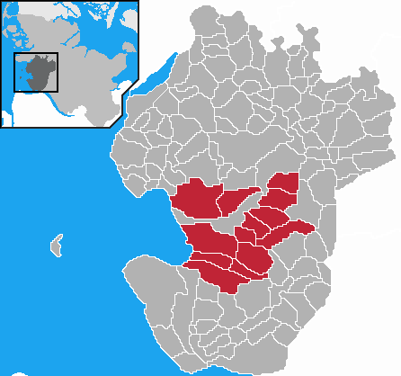 This map shows the area of the Amt (town) Meldorf-Land in the district Dithmarschen, Schleswig-Holstein, Germany.